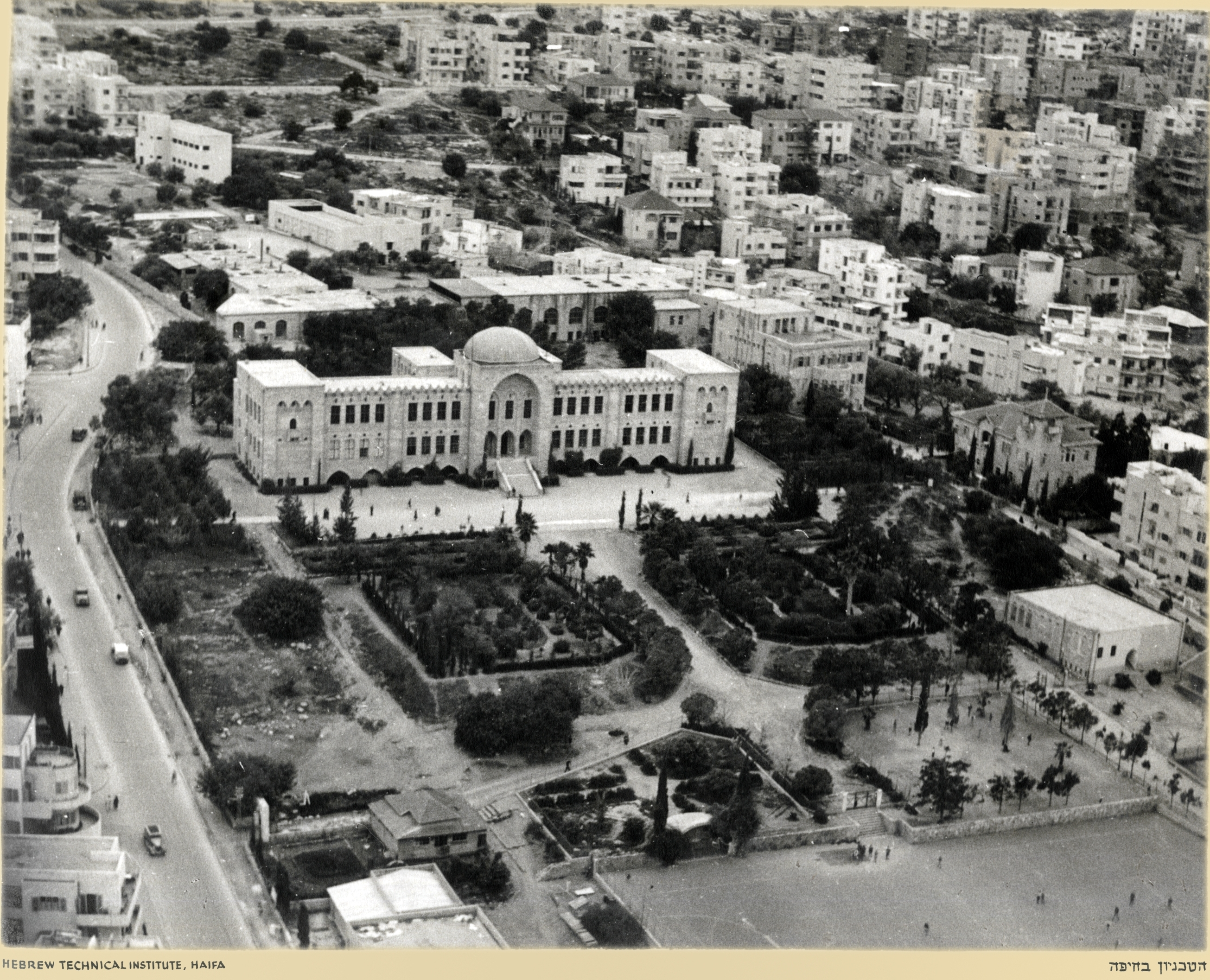 Z. Kluger. Erez Israel from the air - 1937-38